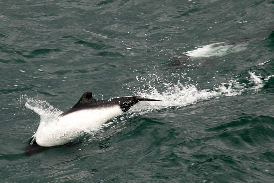 Commerson's Dolphin (Cephalorhynchus commersonii) in the Strait of Magellan.